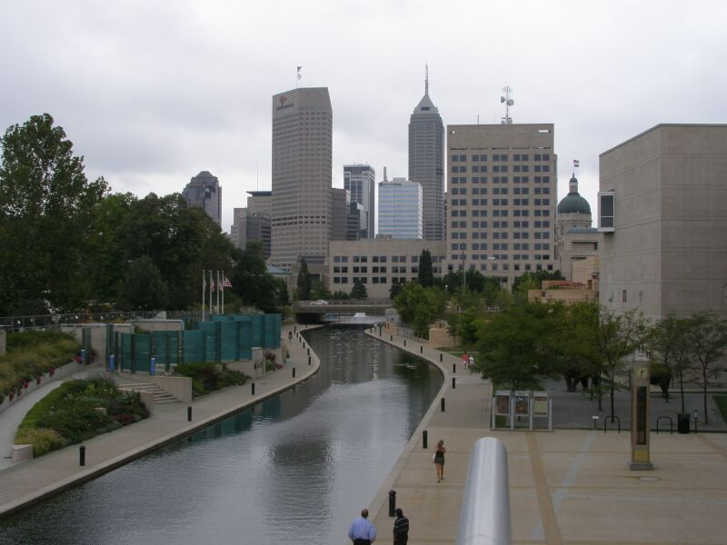 Christopher Light